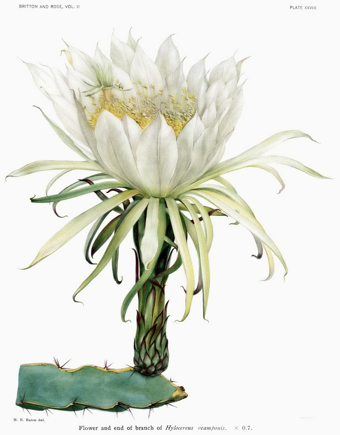 Hylocereus ocamponis. Note that the specimen in the illustration is not in its natural position, but rotated -90°.